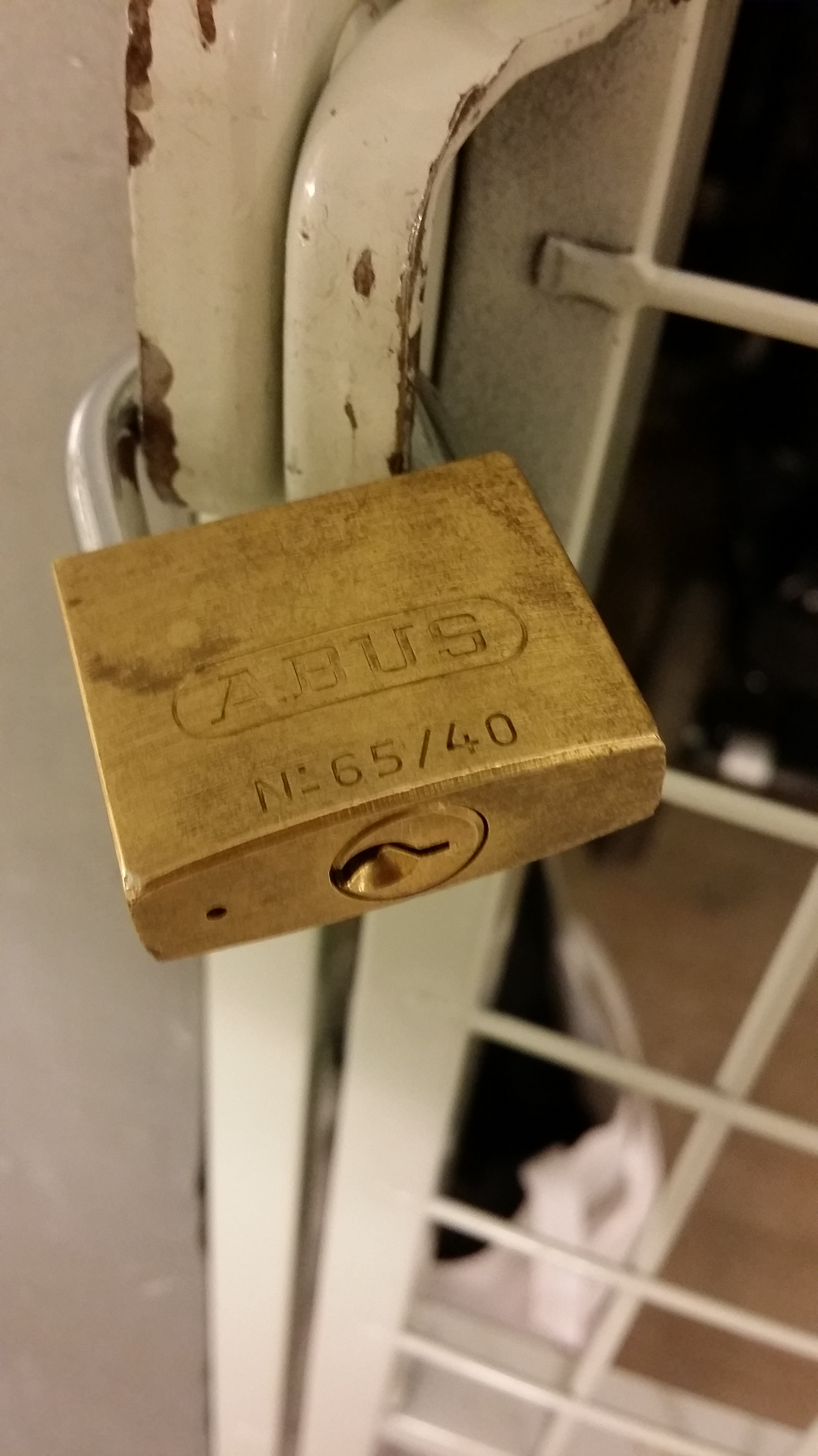 Padlock model "65/40" from the German manufacturer ABUS.